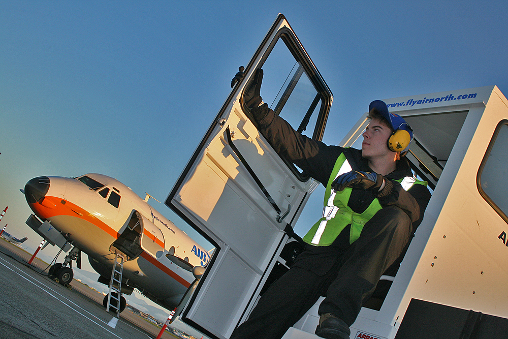 Air North ramp worker